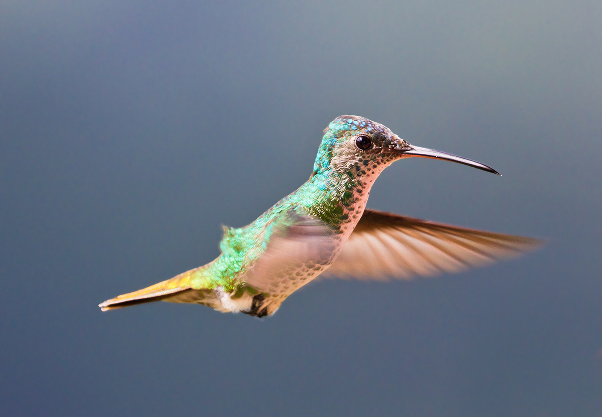 Flying Golden-tailed Sapphire Hummingbird (Chrysuronia oenone) in NE Venezuela.